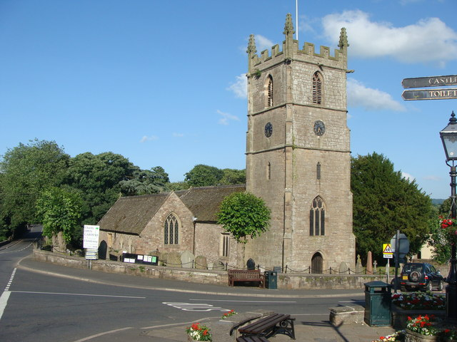 St Cadoc's parish church, Raglan, Monmouthshire, seen from the west